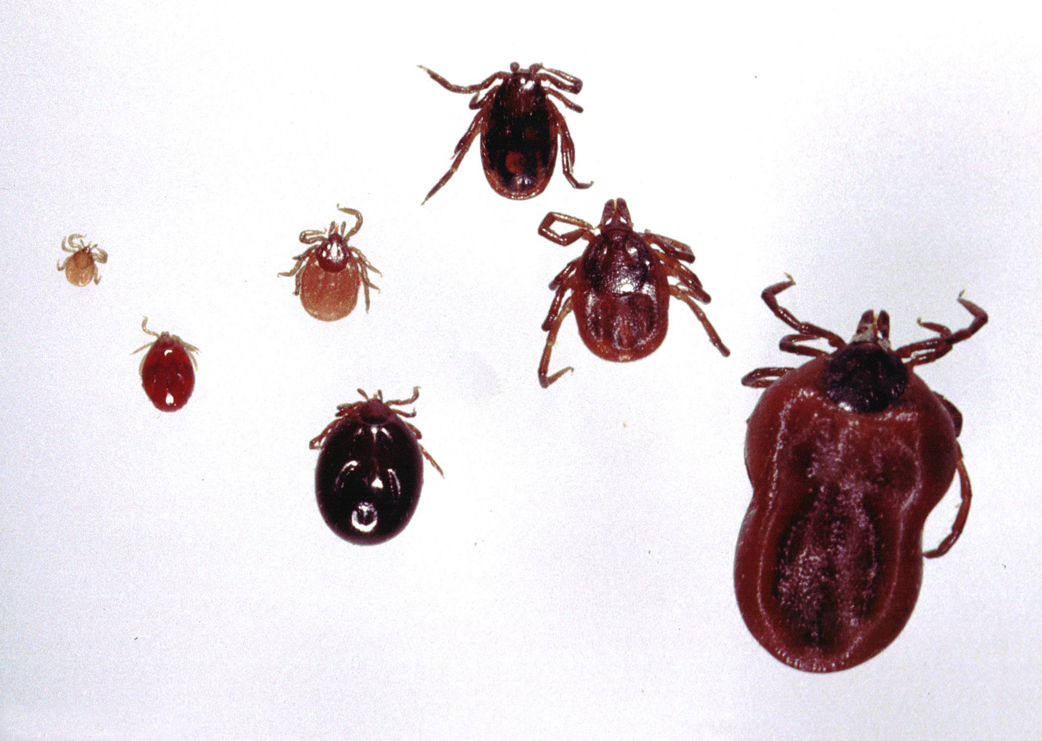 Life cycle stages of Ixodes ricinus deer ticks. Unfed larva at far left, engorged larva next, unfed nymph, engorged nymph, unfed male and female top right, partially engorged female bottom right.